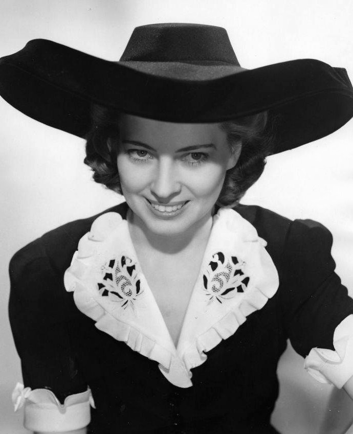 Photo of actress Madaline Lee, who was the voice of Amos 'n' Andy's secretary, Miss Blue on the radio show. Lee was later on the suspected Communist blacklist and this ended her career.